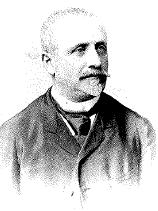 Portrait of H. Bernheim